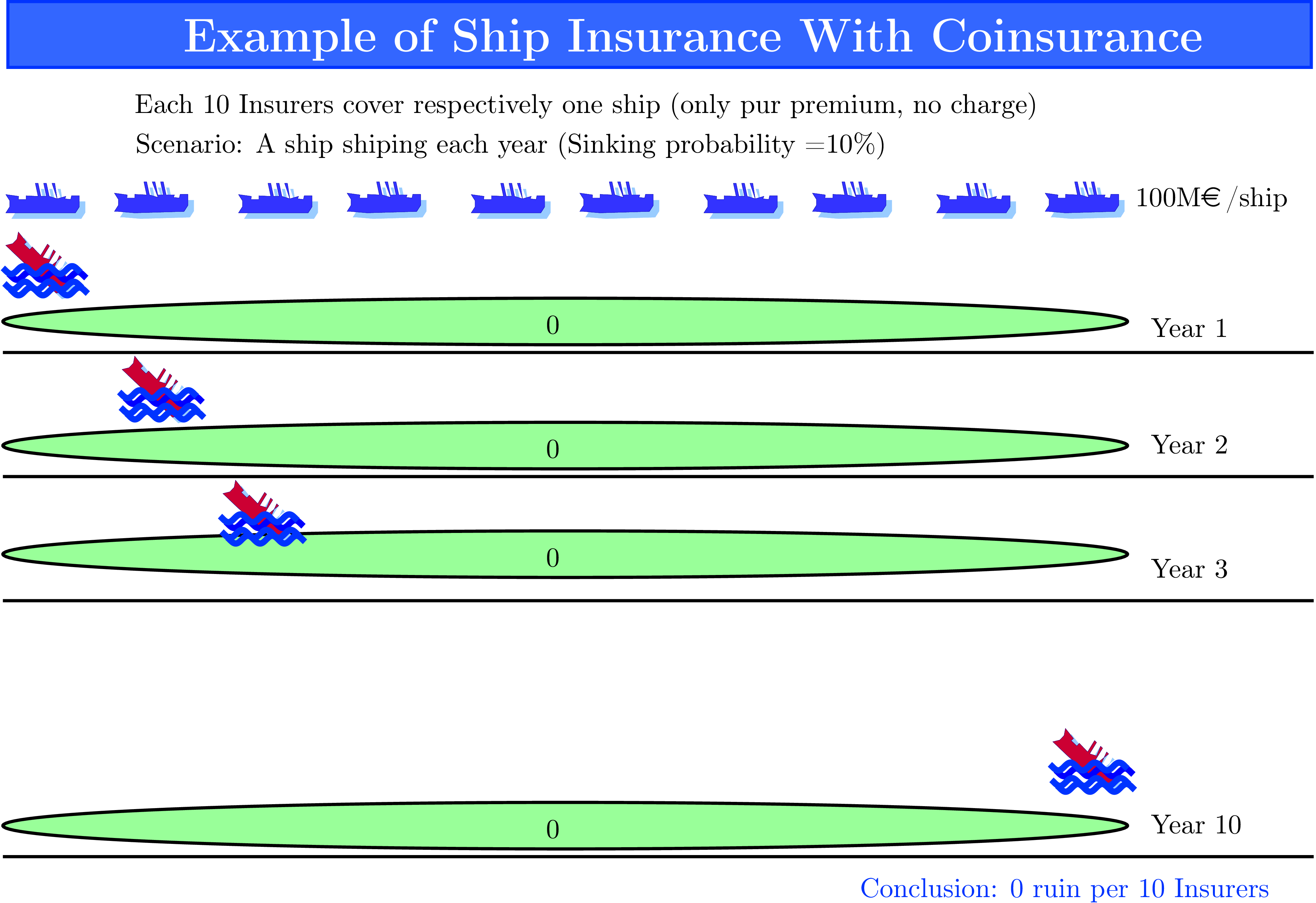 Example of shiping insurance of ten ship by ten insurers with coinsurance